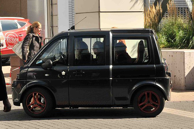 Mia electric car exhibited at the 2011 Frankfurt Motor Show